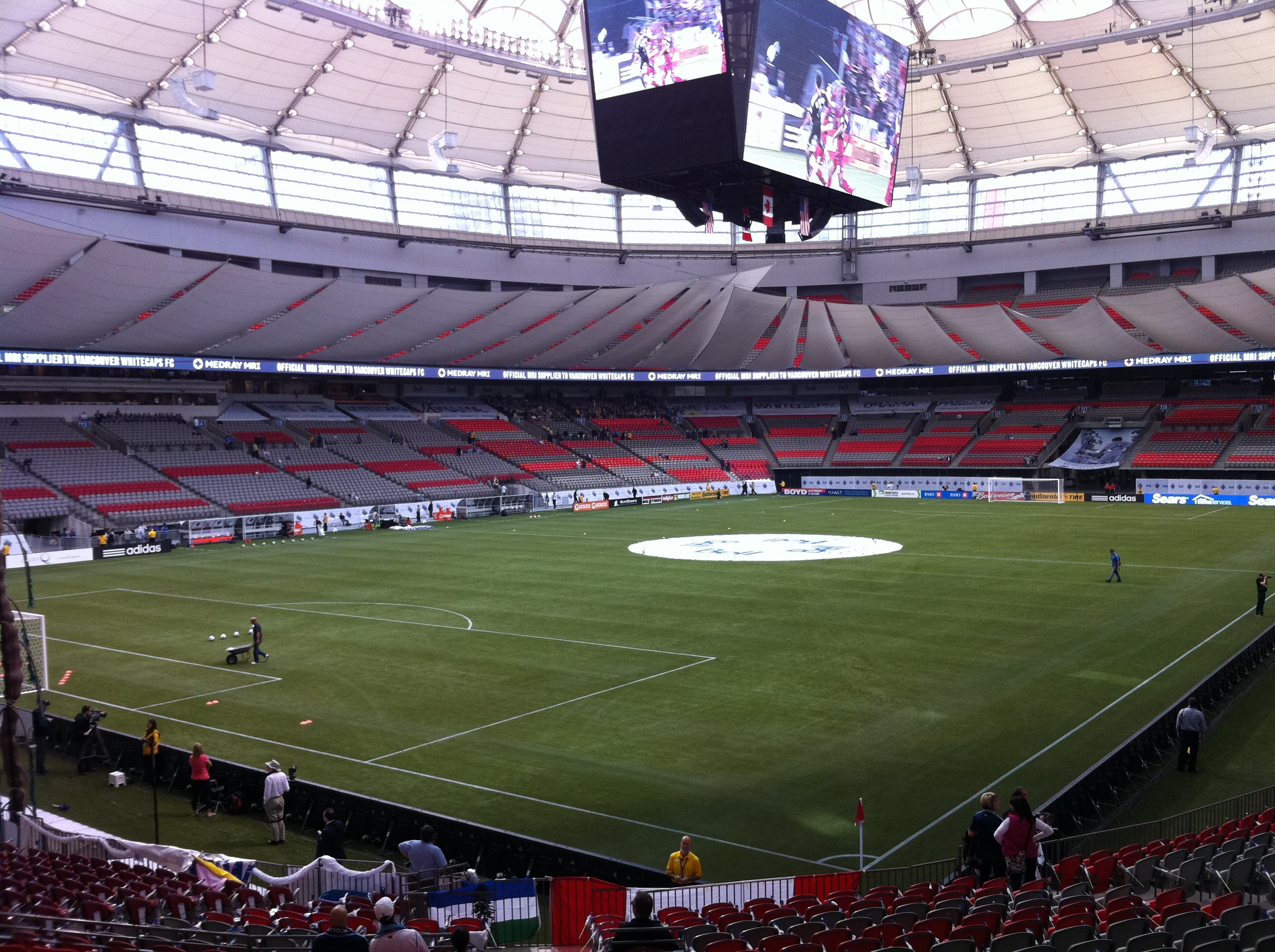 The Vancouver Whitecaps FC home opener on October 2, 2011